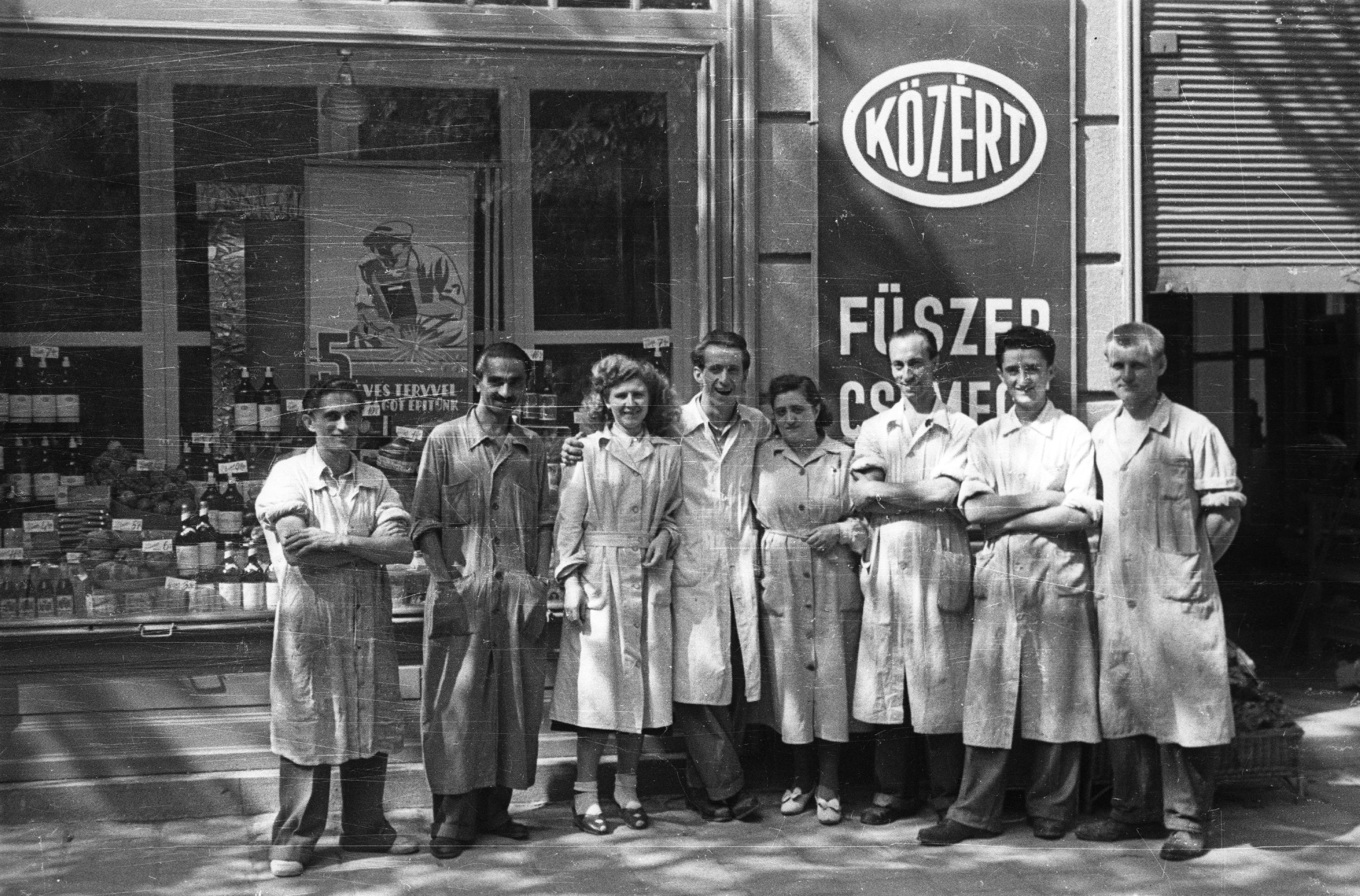 KÖZÉRT Location: Hungary Tags: tableau, vendor, trading, men, women, Show window, poster